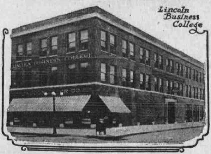 Photograph of Lincoln Business College, appearing in The Omaha Bee on September 2, 1915, p. 2 Also available at